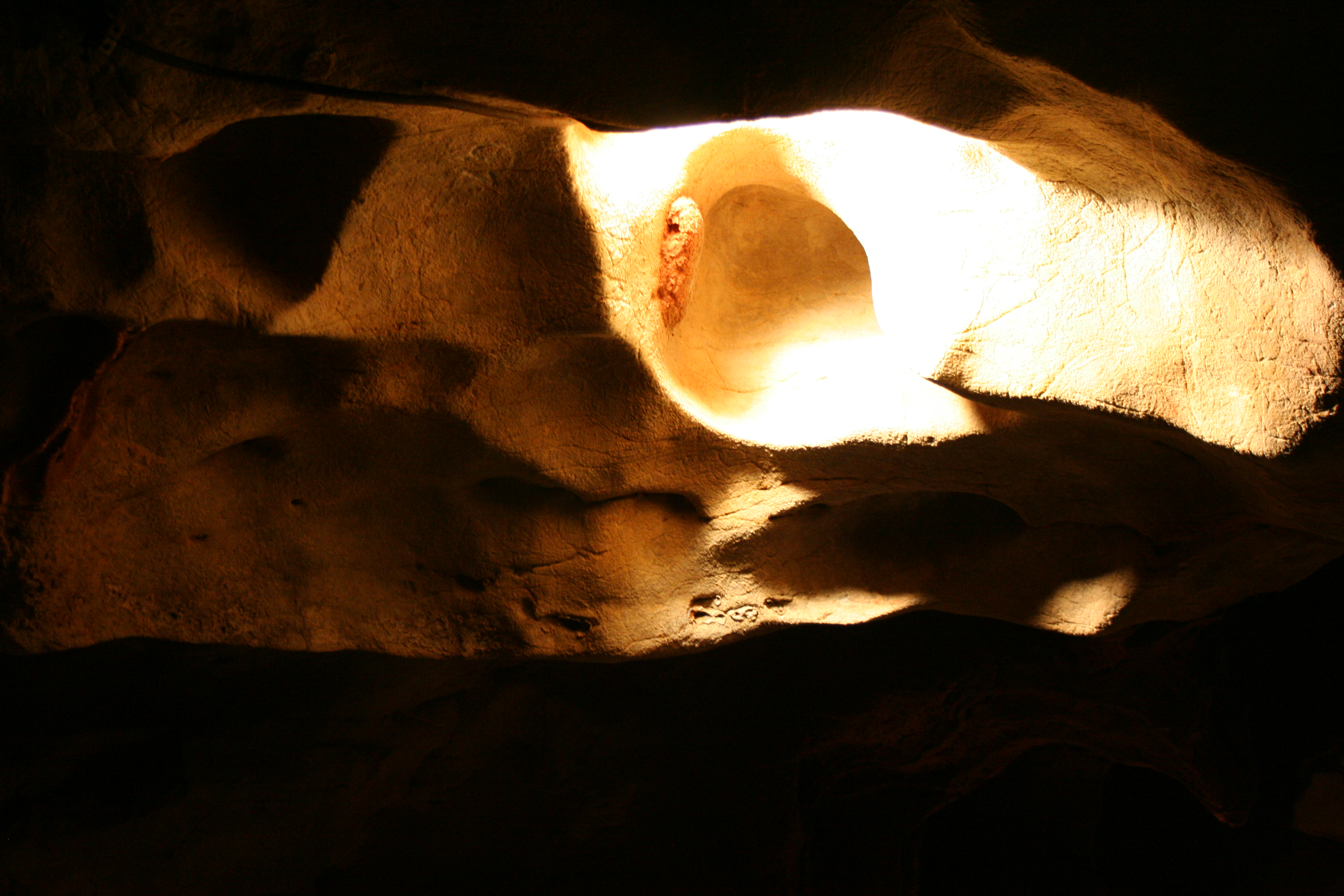 Domica Cave, Slovakia. Taking this photo was made possible through the financial support of Wikimedia Polska.